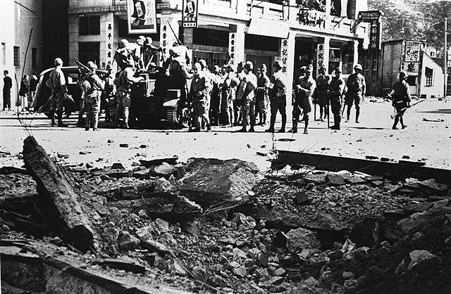 Assembly of Japanese soldiers and captured Bren Gun Carrier. See [1] for historical details.